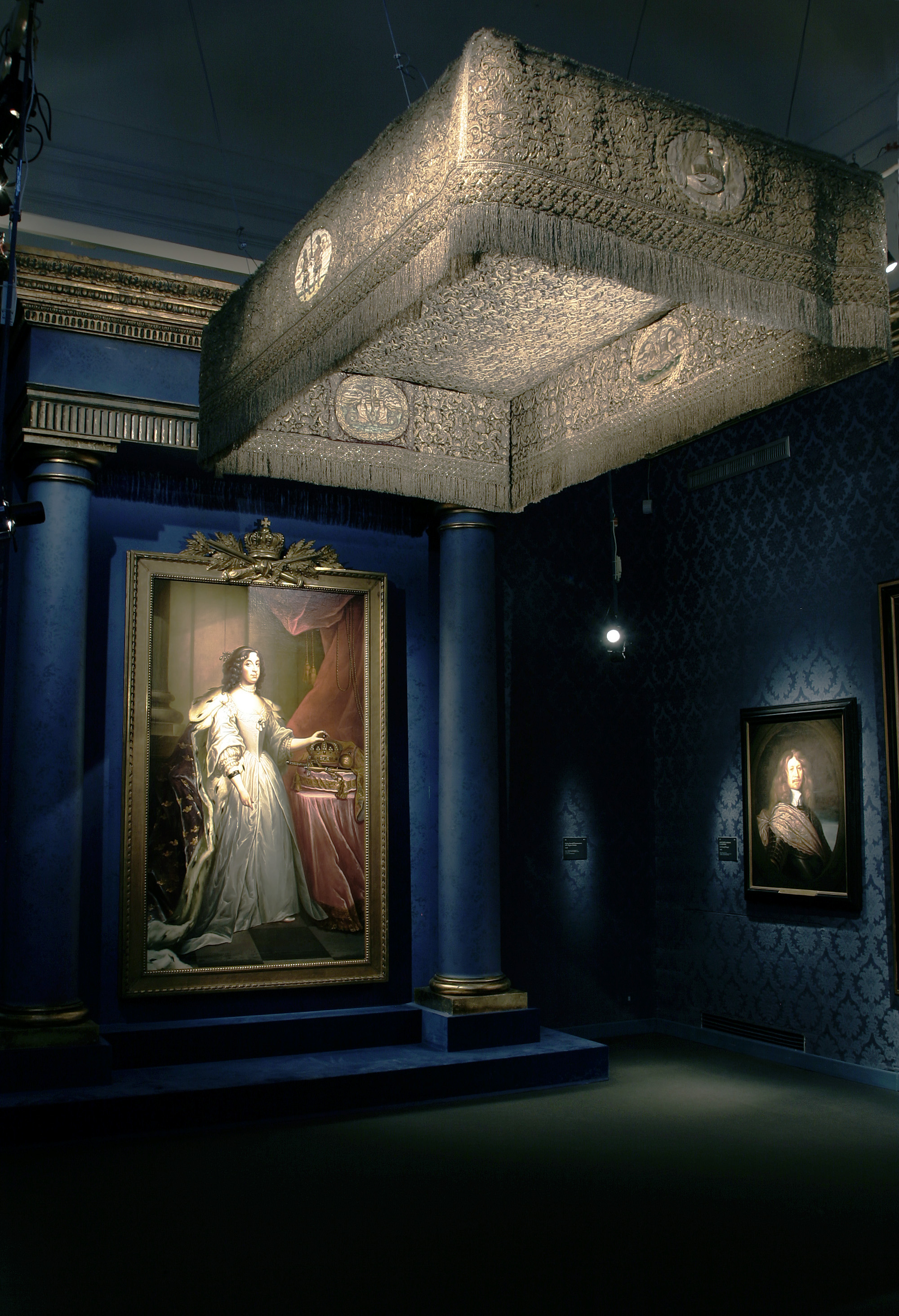 Note: For documentary purposes the original description has been retained. Factual corrections and alternative descriptions are encouraged separately from the original description.Dokumentation, utställning, Cristina di Svezia, år 2004 Nyckelord: Kröningshimmel, Drottning, Kristina, Föremålsbild, Utställningar